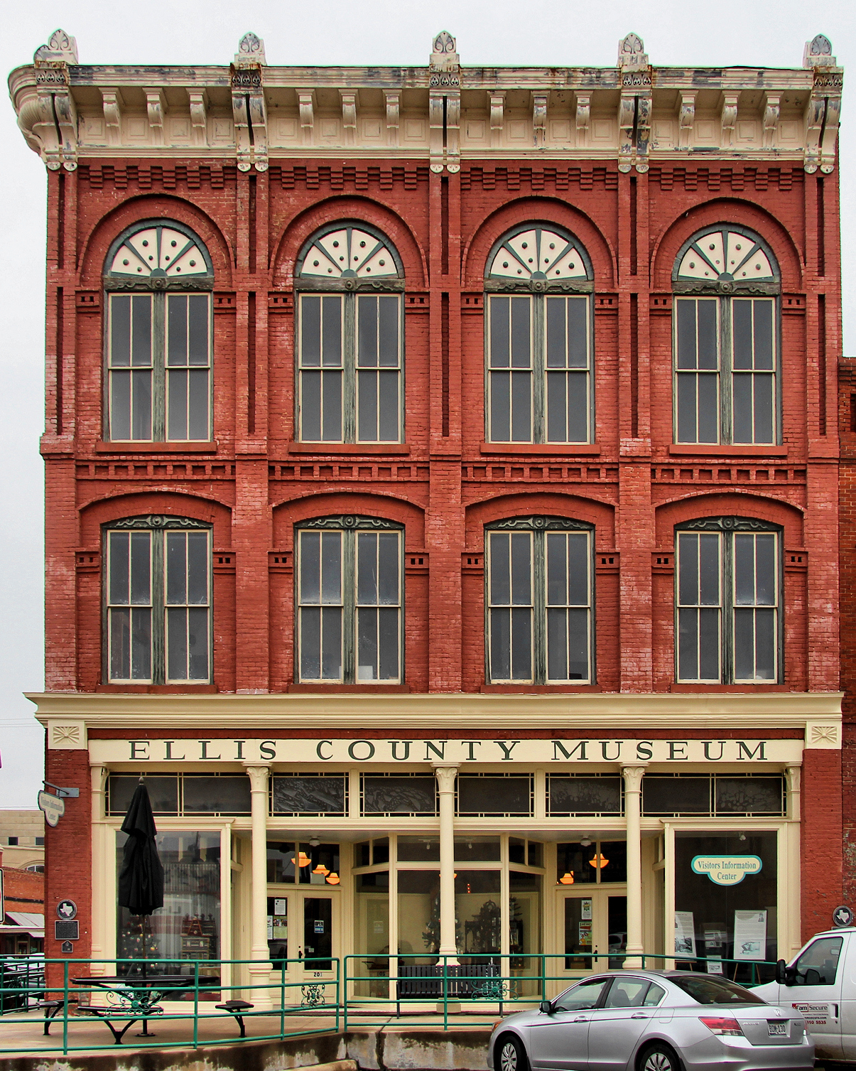 The 1889 Masonic Lodge Hall in Waxahachie, Texas, United States was designated a Recorded Texas Historic Landmark in 1976. The building is now the Ellis County Museum.